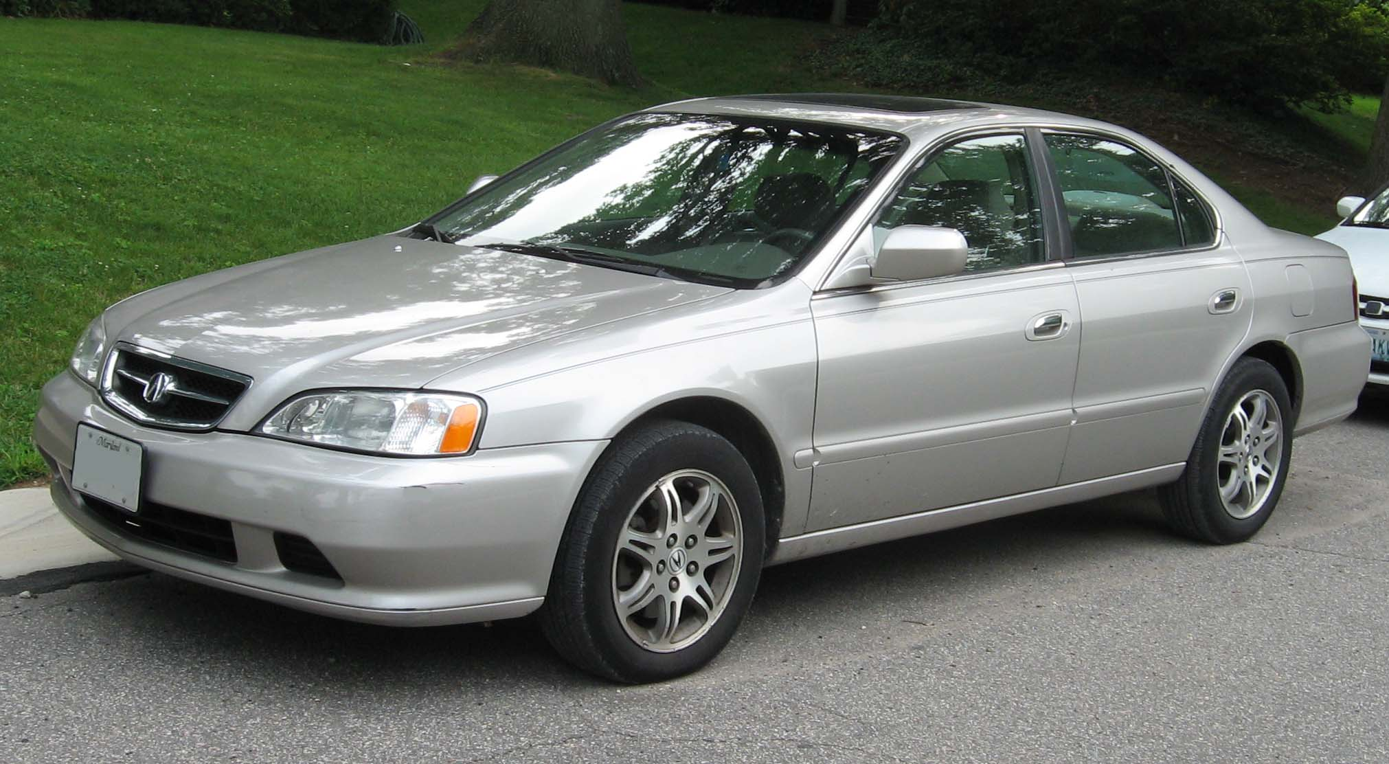 1999-2001 Acura TL photographed in USA.